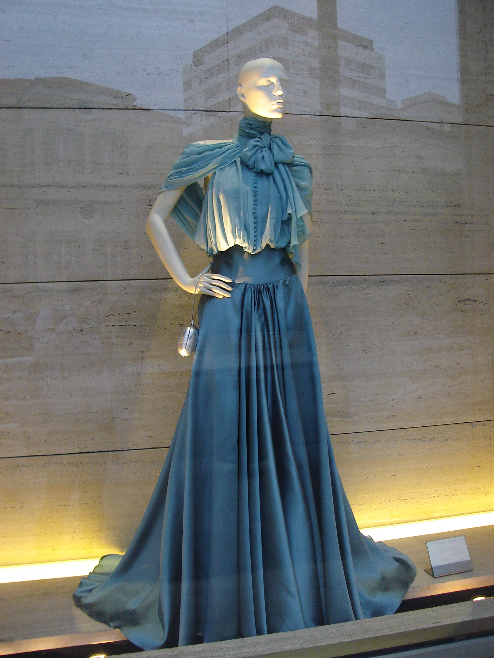 Elie Saab gown in a Beirut, Lebanon shop window, 2005